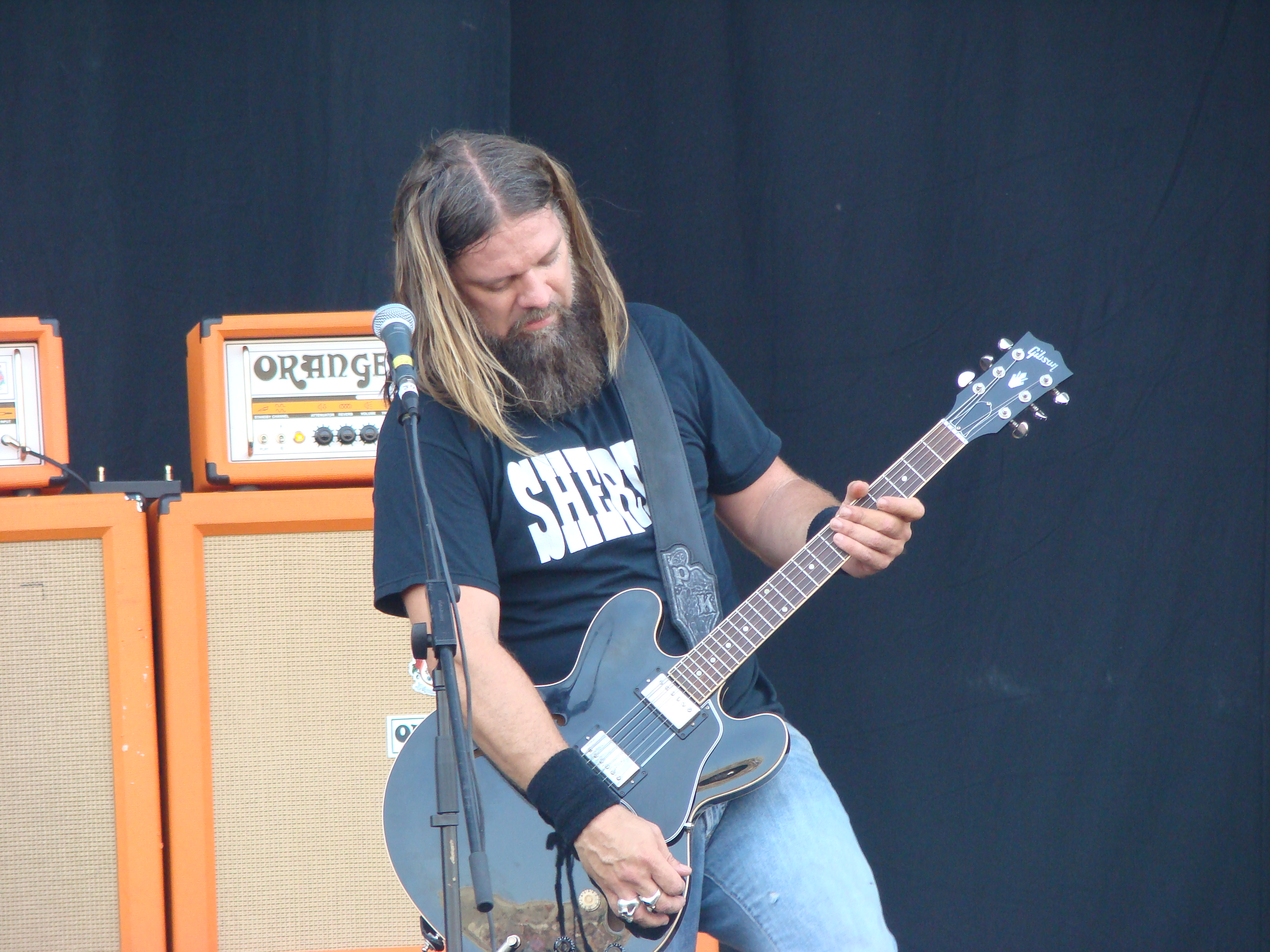 Down´s guitarrist, Pepper Keenan playing live at Gods of Metal 2009.